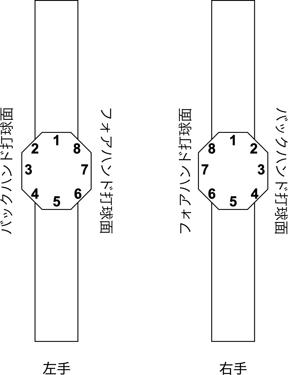 Tennis grip bevel numbering. A view from the grip ends.